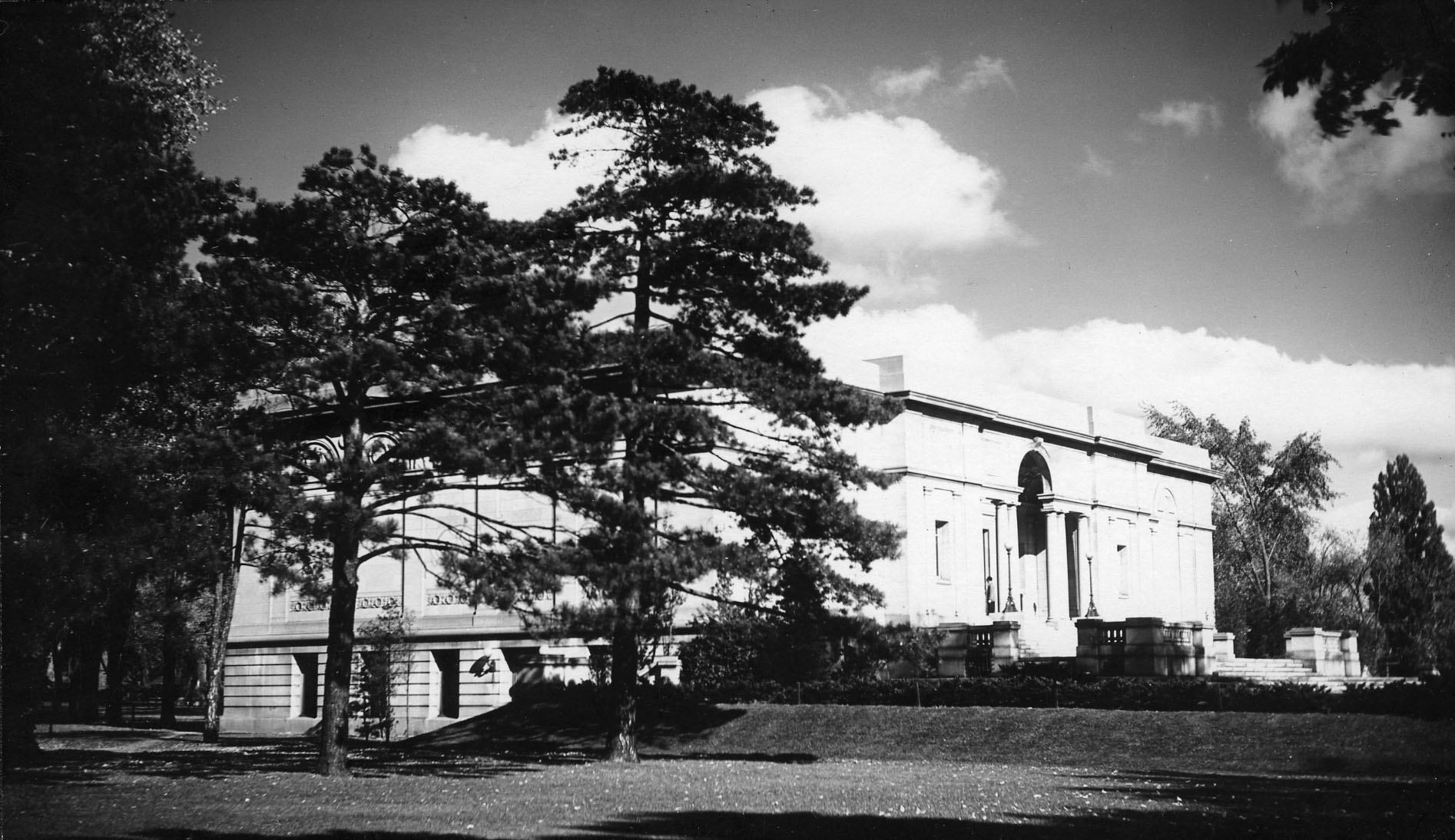 Photograph of the Memorial Art Gallery published at the time of its dedication, October 8, 1913